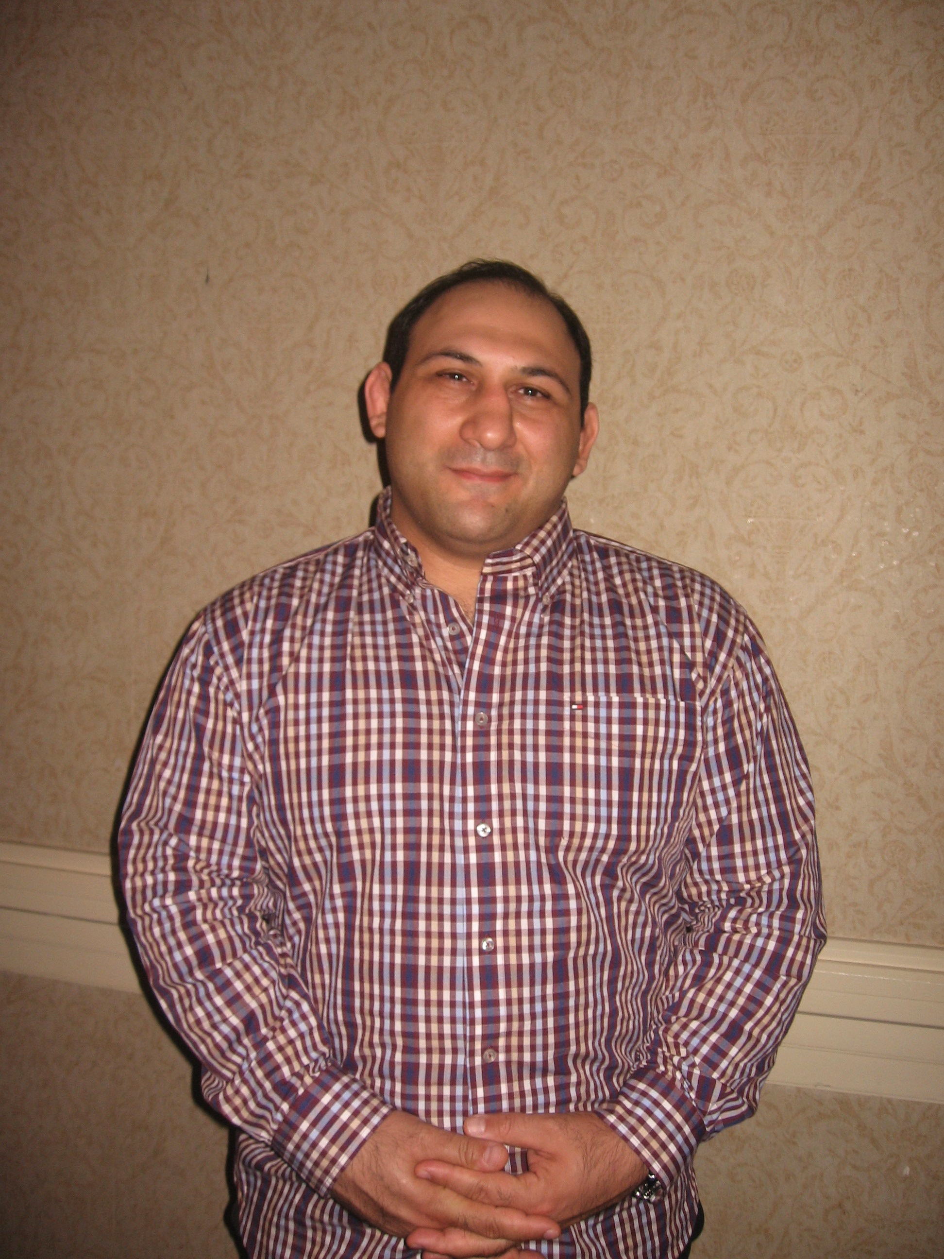 Alireza Rezaei, Iranian wrestler, علیرضا رضایی, کشتی گیر